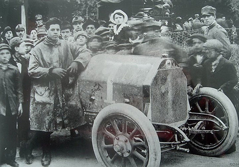 Giulio Ramponi and an A.L.F.A. 24 HP (also known as 20-30 HP) in 1920. The radiator badge is the one adopted around 1915. The "Alfa Romeo" script is not present (it started 1921).